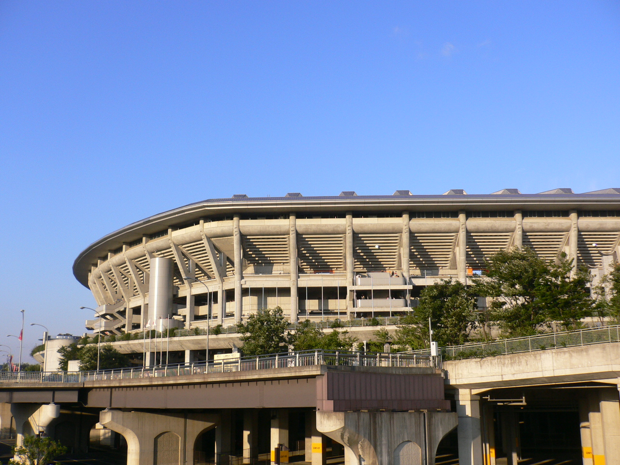 Nissan Stadium Outside